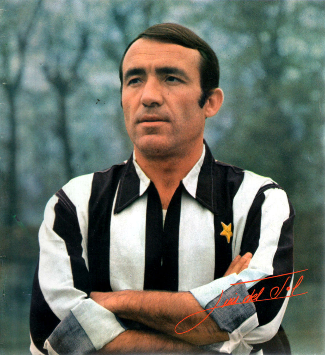 Spanish footballer Luis del Sol Cascajares with Juventus F.C. in the 1st half of the 1969–70 season.